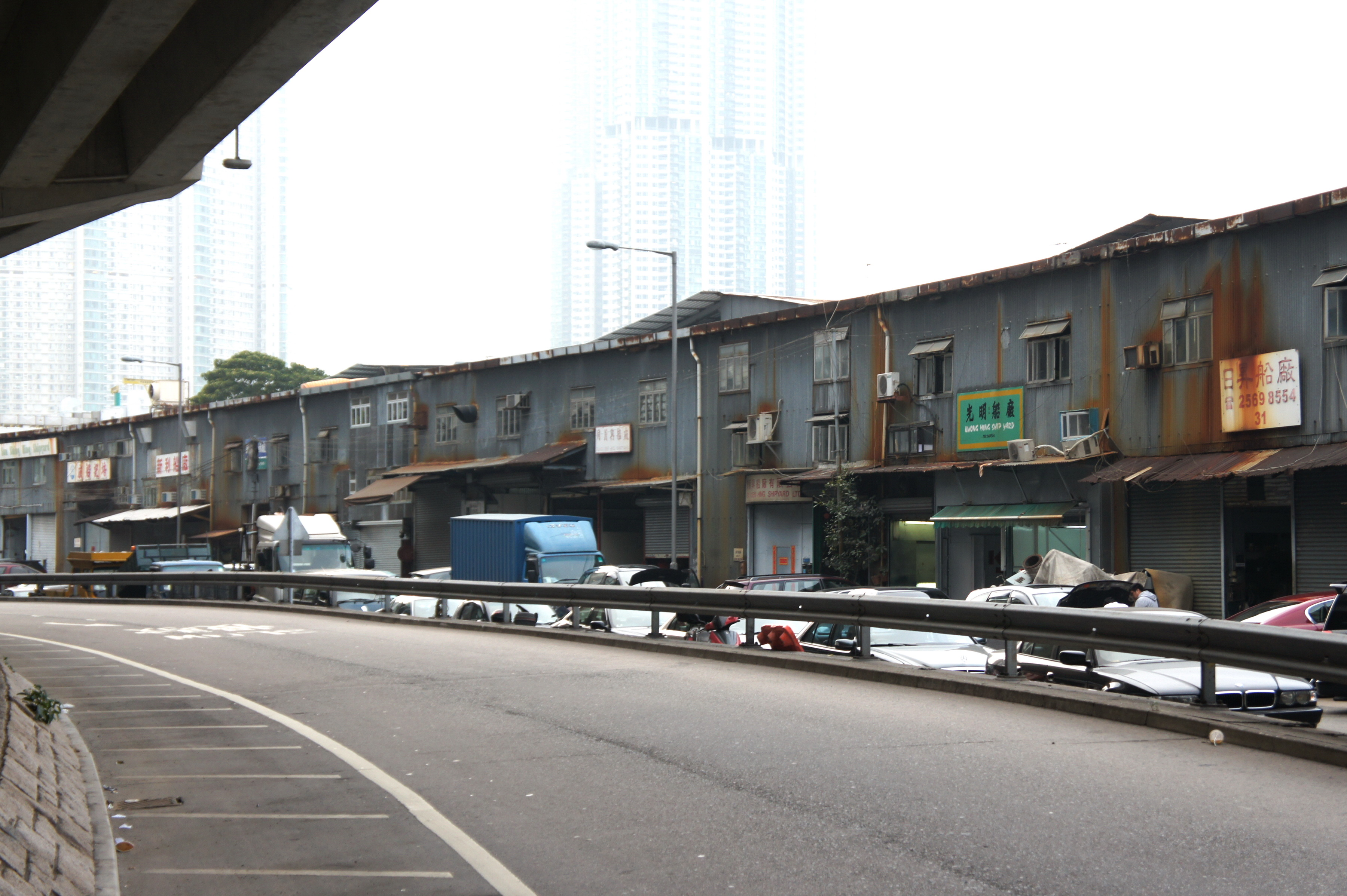 Several shipyards on Tam Kung Temple Road,Shau Kei Wan, Hong Kong. The road in the foreground is Tung Hei Road.